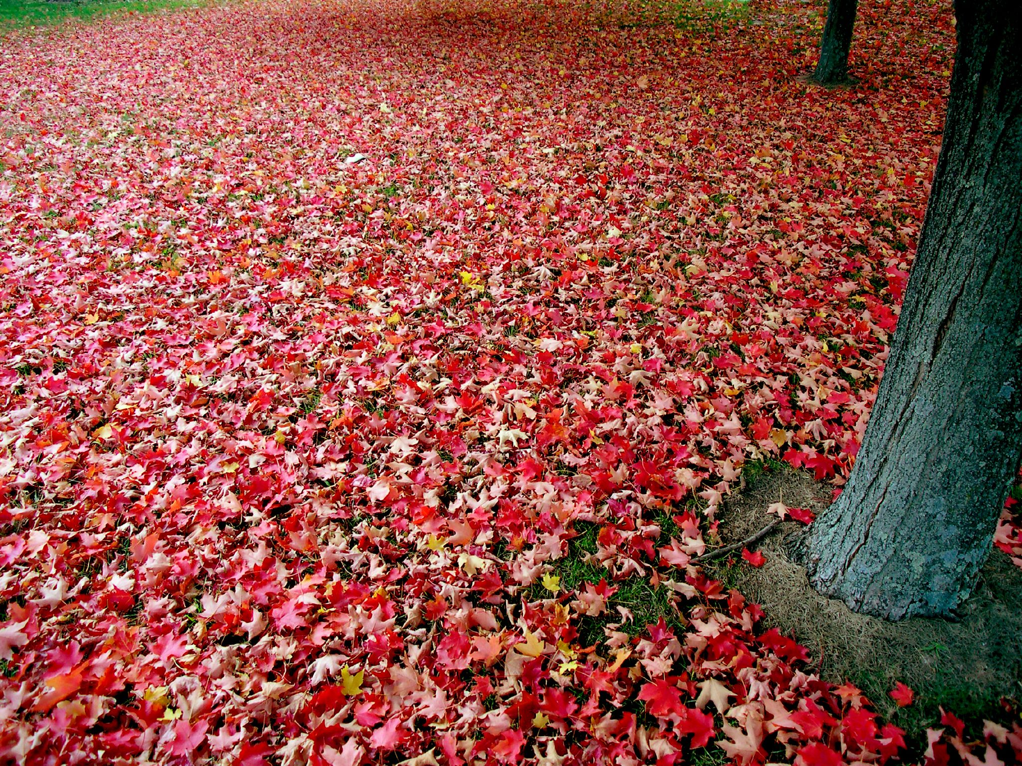 A carpet of fallen red autumn leaves.